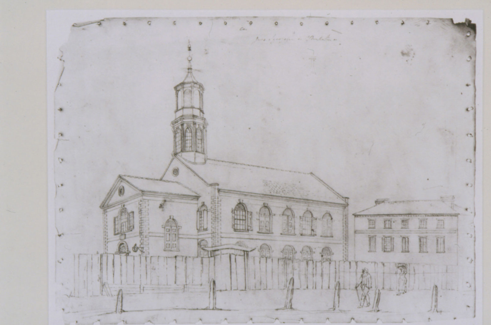 Drawing of the exterior of the first Kahal Kadosh Beth Elohim Synagogue which resembled a church in the Georgian style. It was destroyed in the great fire of Charleston of 1838.